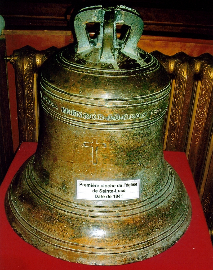 The first bell (1841) of church of Sainte - Luce, Québec. ( Historic church and bell )